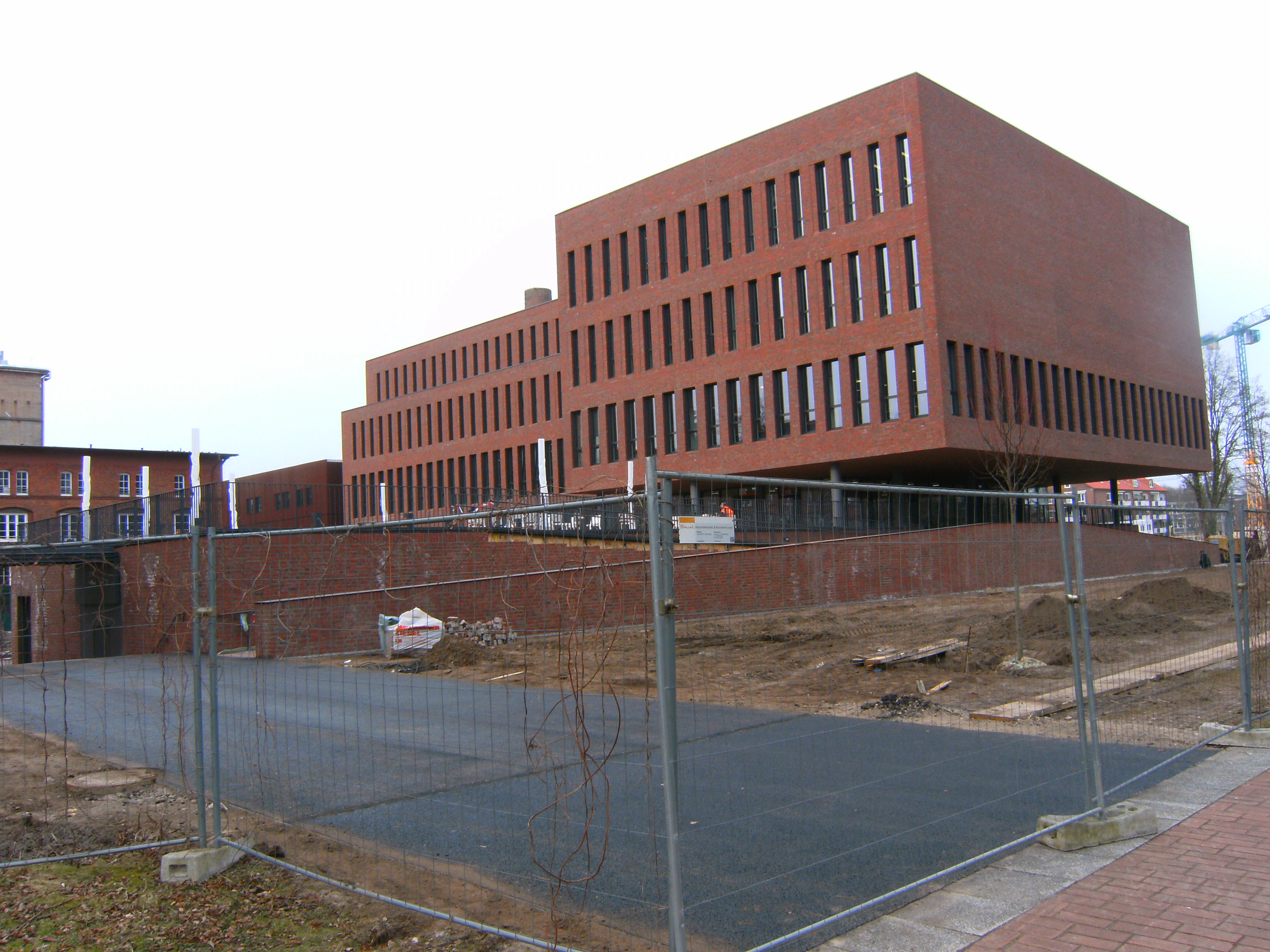 Kunst- und Mediencampus (art and media) Hamburg: Laboratories for the Department Media and Design of the University of Applied Sciences Hamburg (HAW).